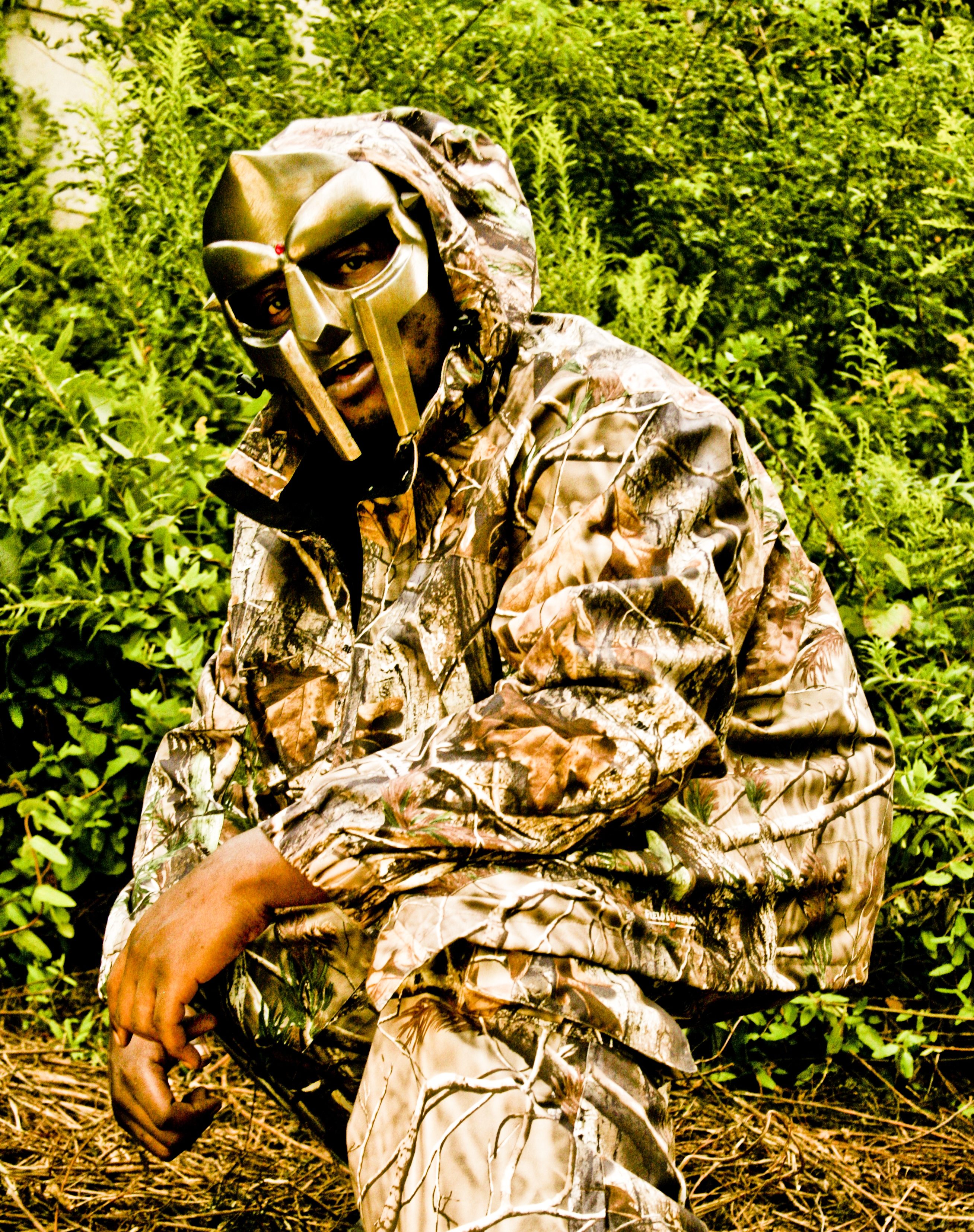 Promotional photograph of rapper and producer MF Doom for his upcoming concert at The Arches in Glasgow, Scotland.